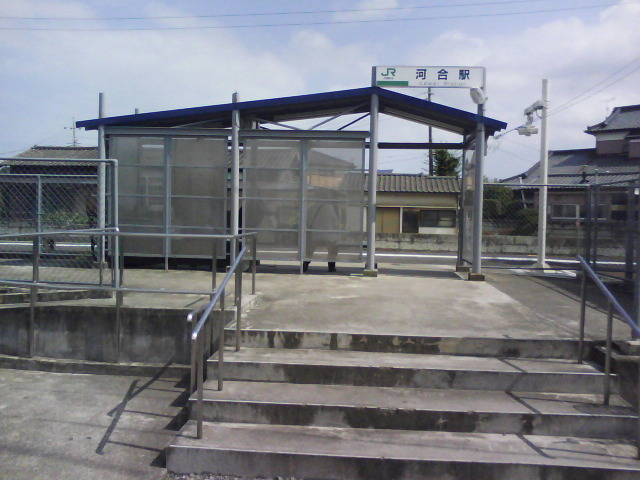 Kawai Station building